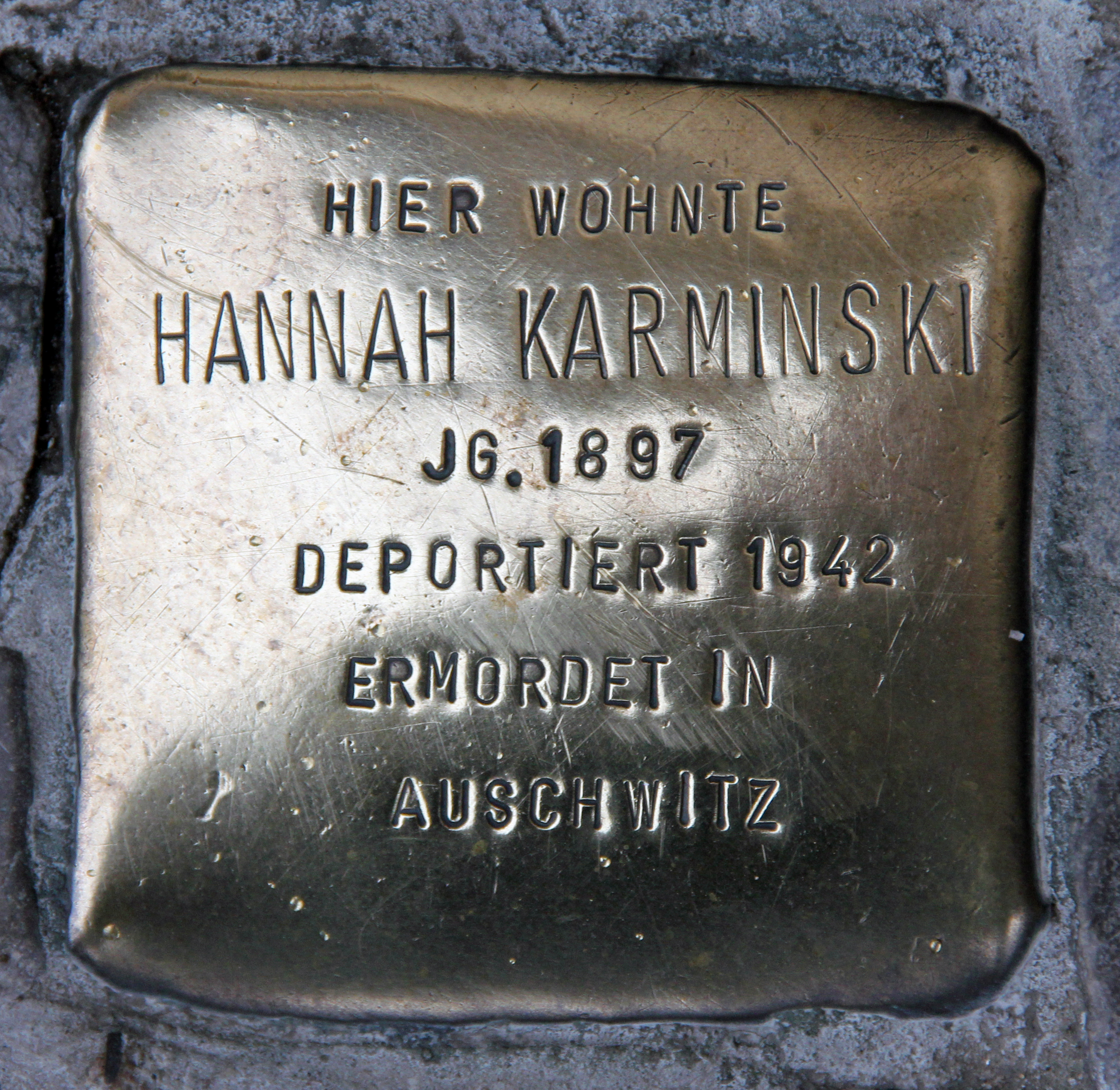 "Stolperstein" (stumbling block), Hannah Karminski, Oranienburger Straße 22, Berlin-Mitte, Germany